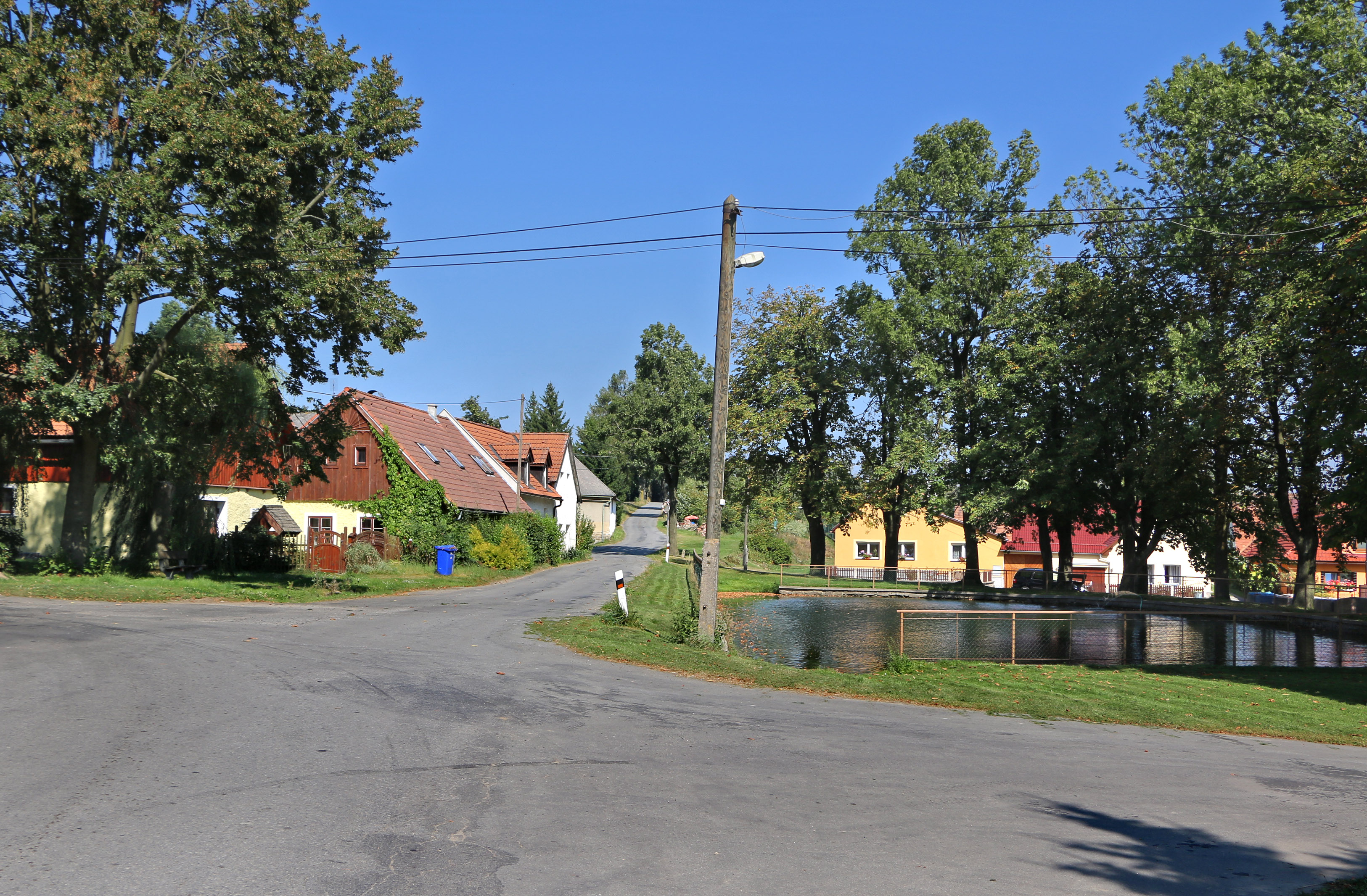 Common in Černov, Czech Republic.